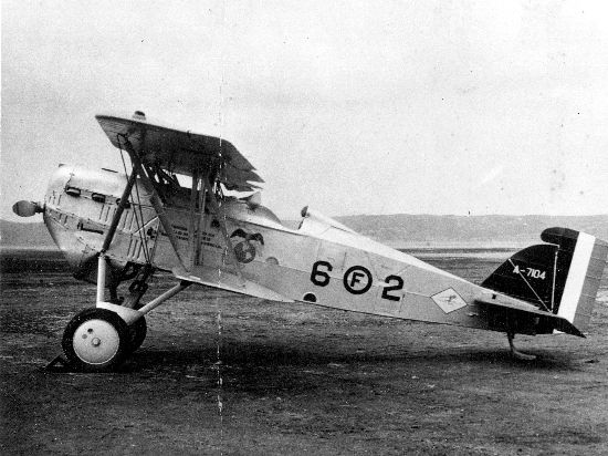 Boeing FB-5 S/N A-7104